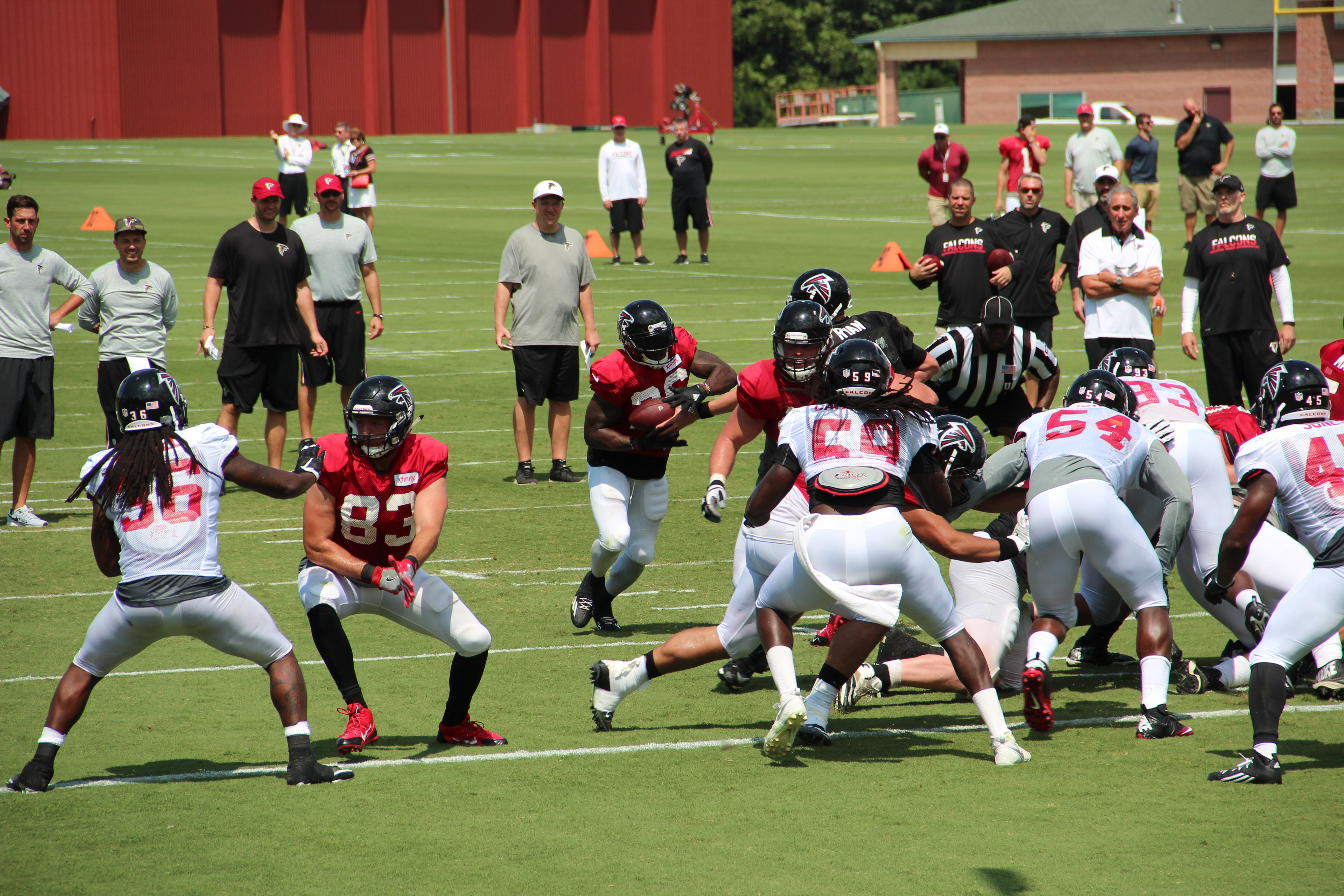 Atlanta Falcons training camp scrimmage